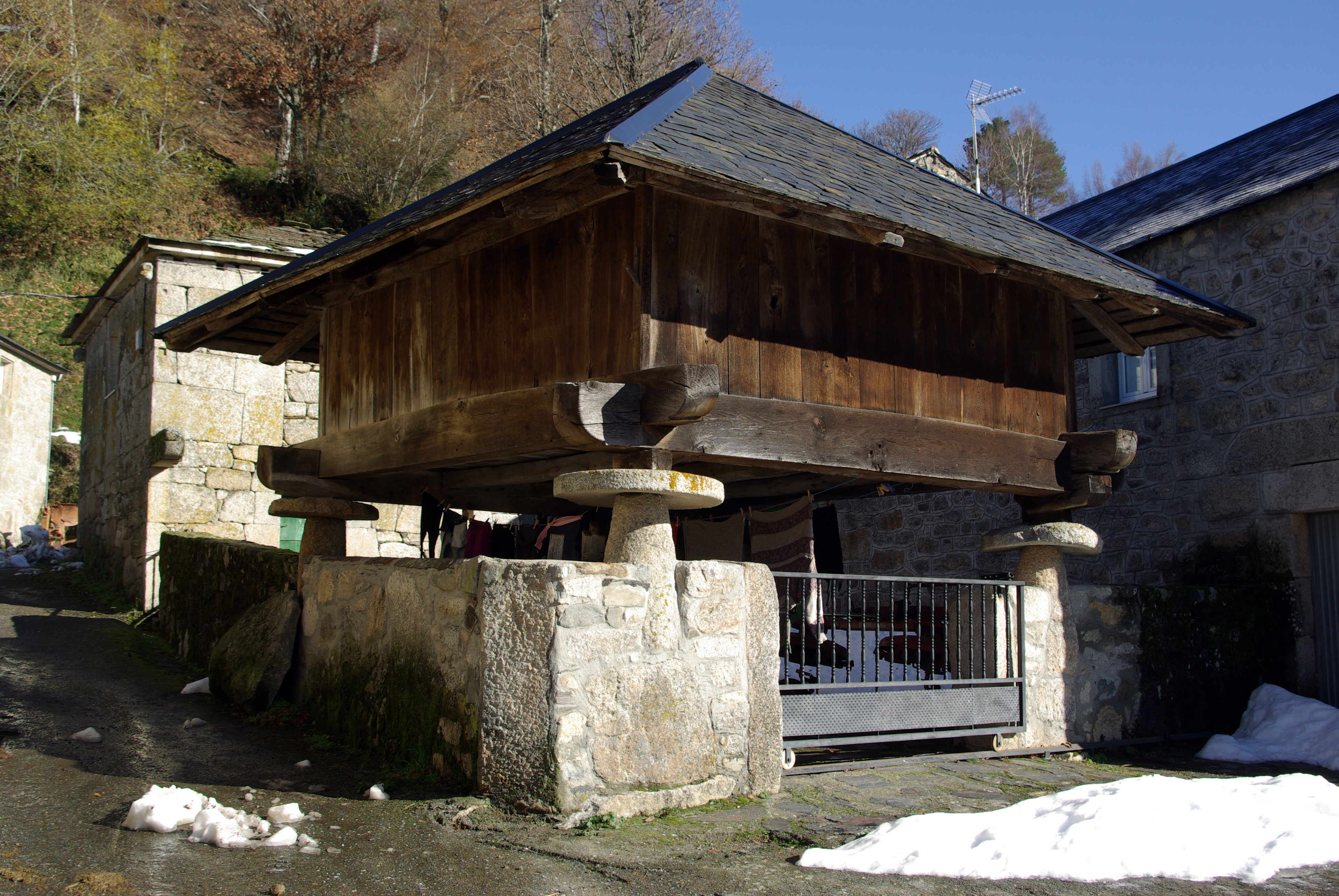 Hórreo of wood and slate in Suarbol, Candín (León, Spain)